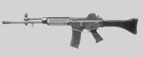 A Daewoo K2, Southkorean servic rifle